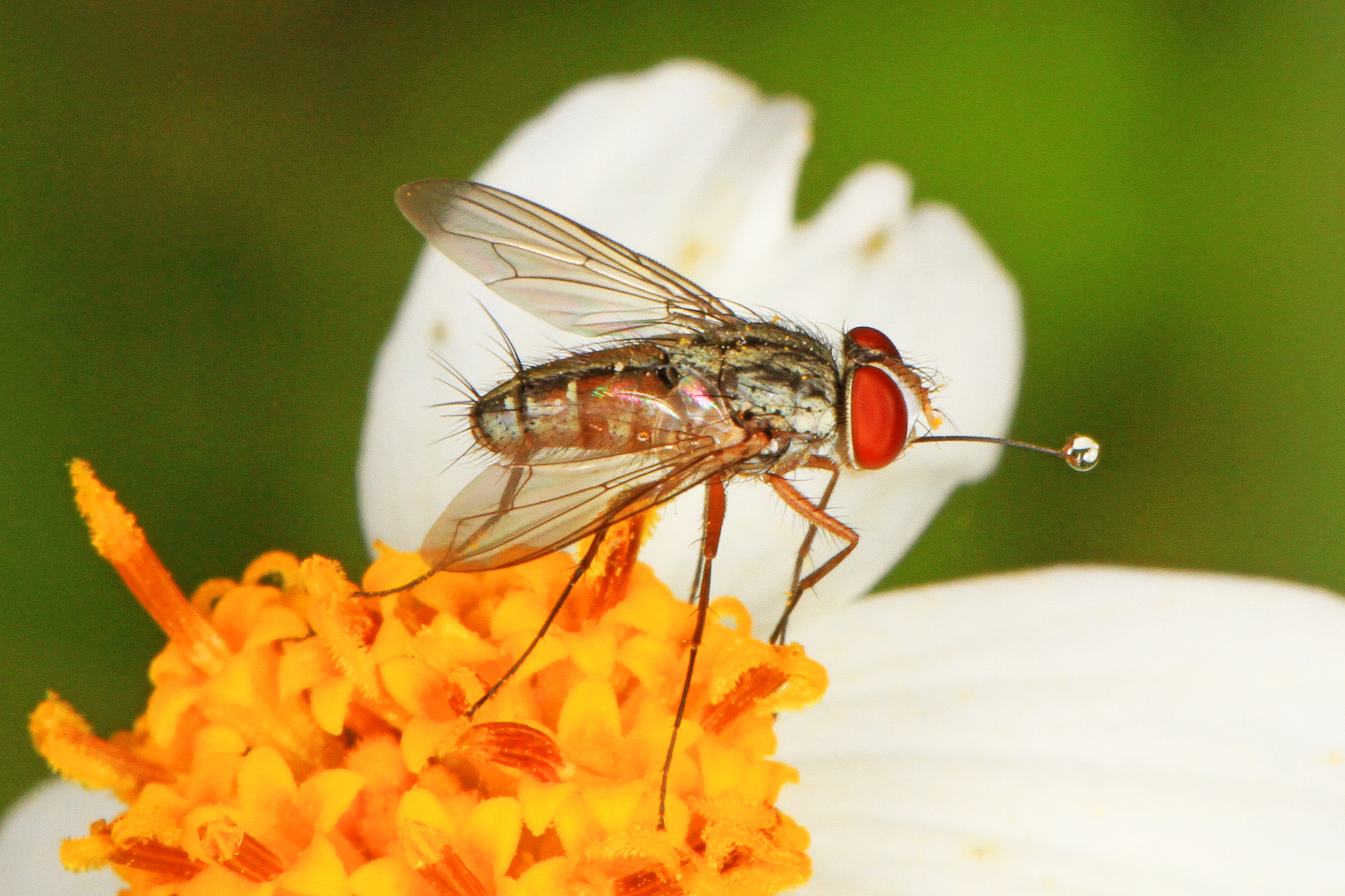 Tachinid - Prosenoides flavipes, Okaloacoochee Slough State Forest, Felda, Florida. This is not the first time I've seen a fly blow bubbles, but I've never seen it on the end of a long proboscis before. HFDF